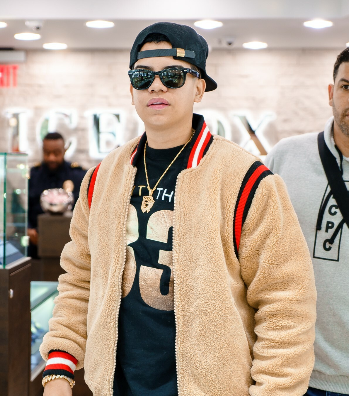 J Alvarez Icebox 2019